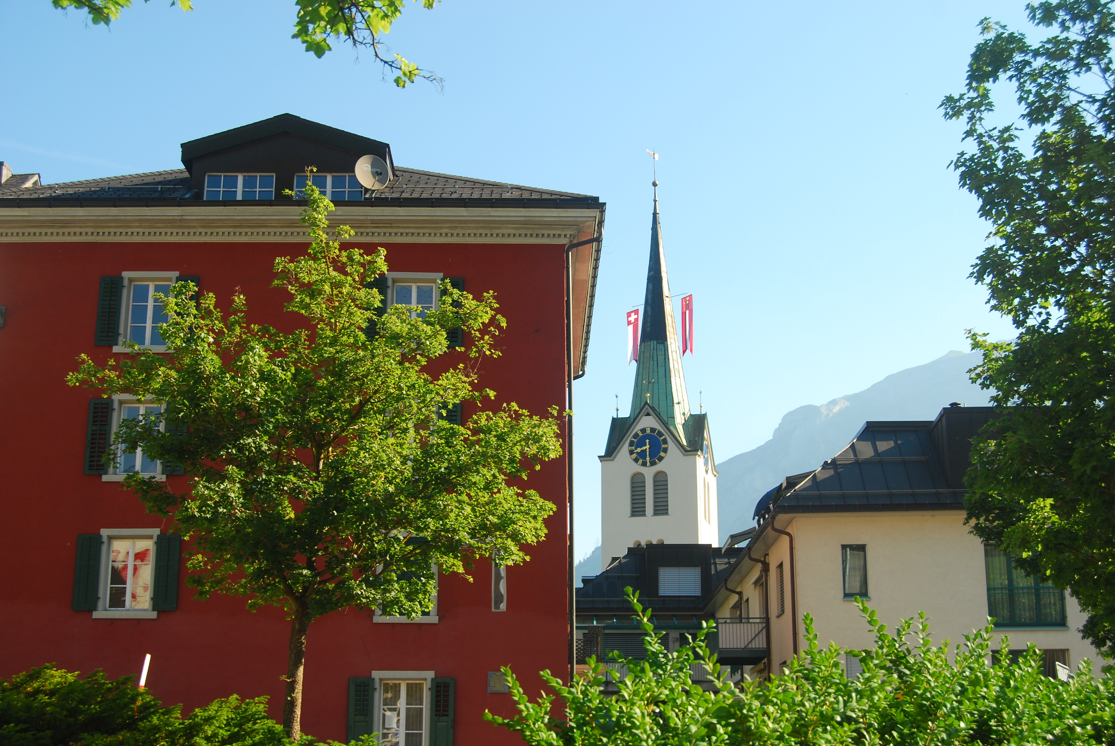 Church of Schwanden, canton of Glarus, Switzerland